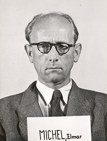 Elmar Michel, chief of the German Administration in Occupied France during WW 2, as a witness during the Nuremberg Trials.